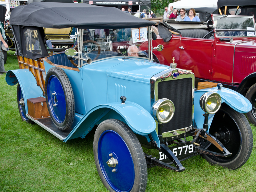 Hebden Bridge Vintage Weekend 05/08/2012